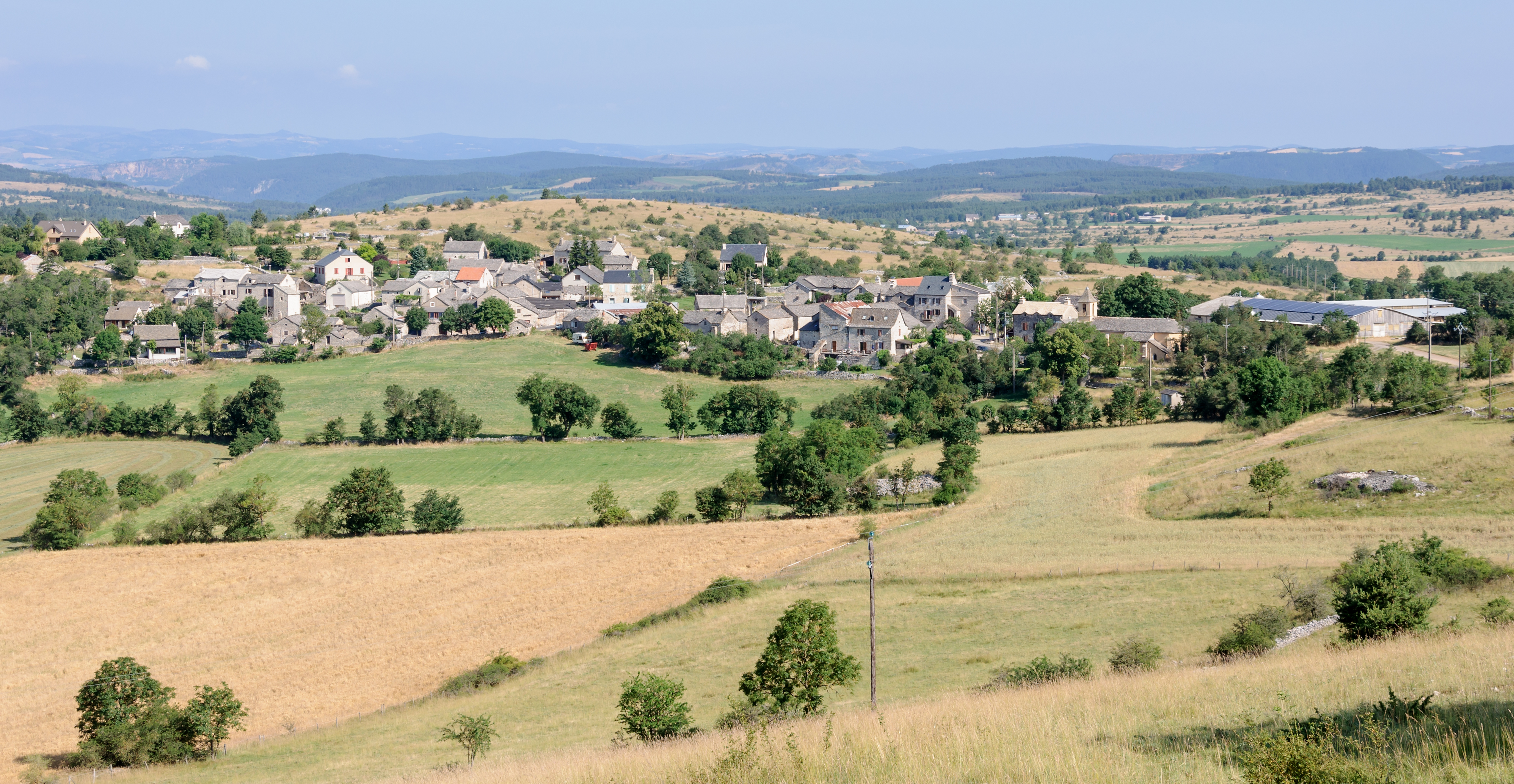 A view of the hamlet of Champerboux on the Causse de Sauveterre (commune of Sainte-Enimie, Lozère, France)